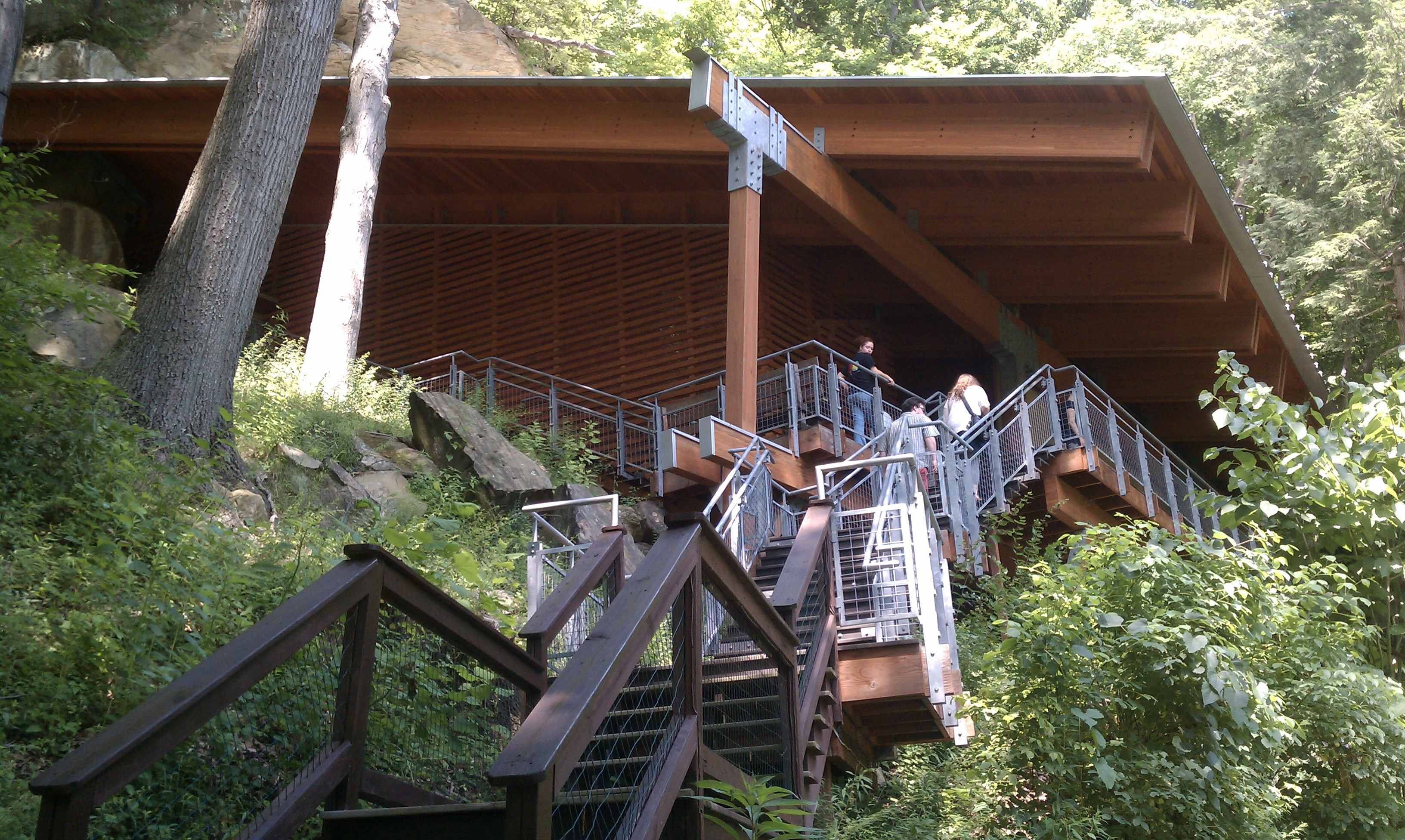 A sign near the site says the following: "Meadowcroft Rockshelter - a deeply stratified archaeological site its deposits span nearly 16,000 years. Discovered in 1973 by Albert Miller and excavated by the University of Pittsburgh archaeologists, Meadowcroft revealed North America's earliest known evidence of human presence and the New World's longest sequence of human occupation. All of eastern North America's major cultural stages appear in its remarkably complete archaeological record. Pennsylvania Historical and Museum Commission 1999". [1]